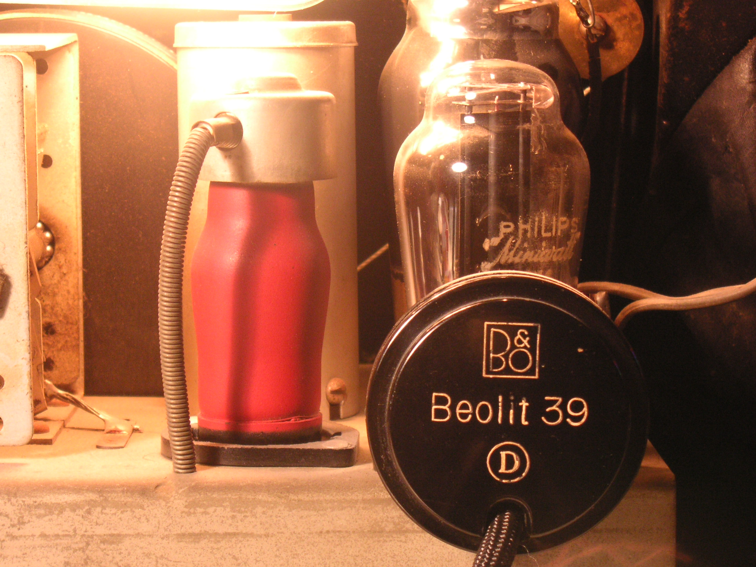 The Bang & Olufsen Beolit 39 4-tube radio, 1938/1939 model year. The radio was a basic, inexpensive chassis in a stylish, curvy compact desktop shell.